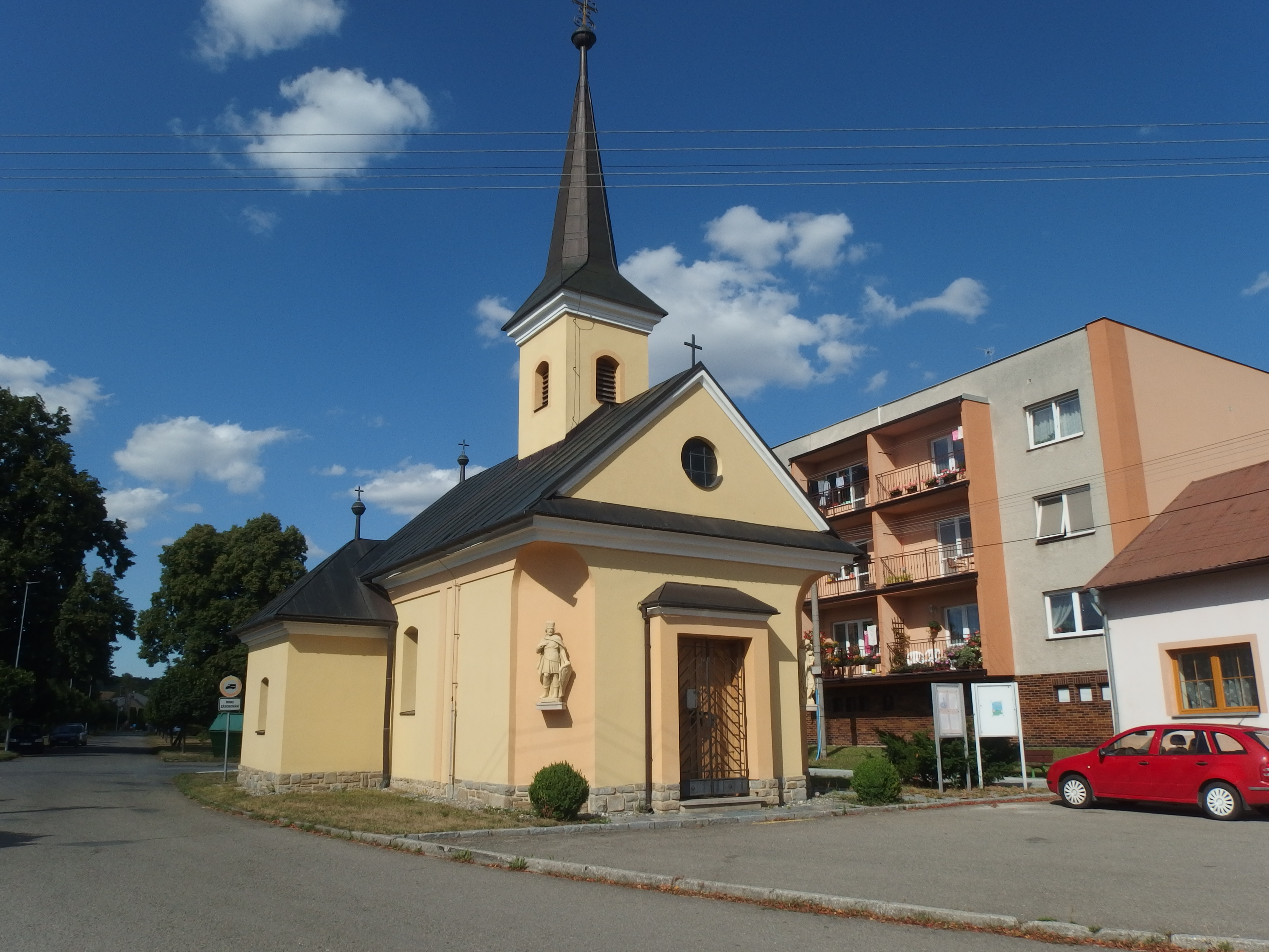 Bystřice pod Hostýnem, Kroměříž District, Czech Republic, part Rychlov.